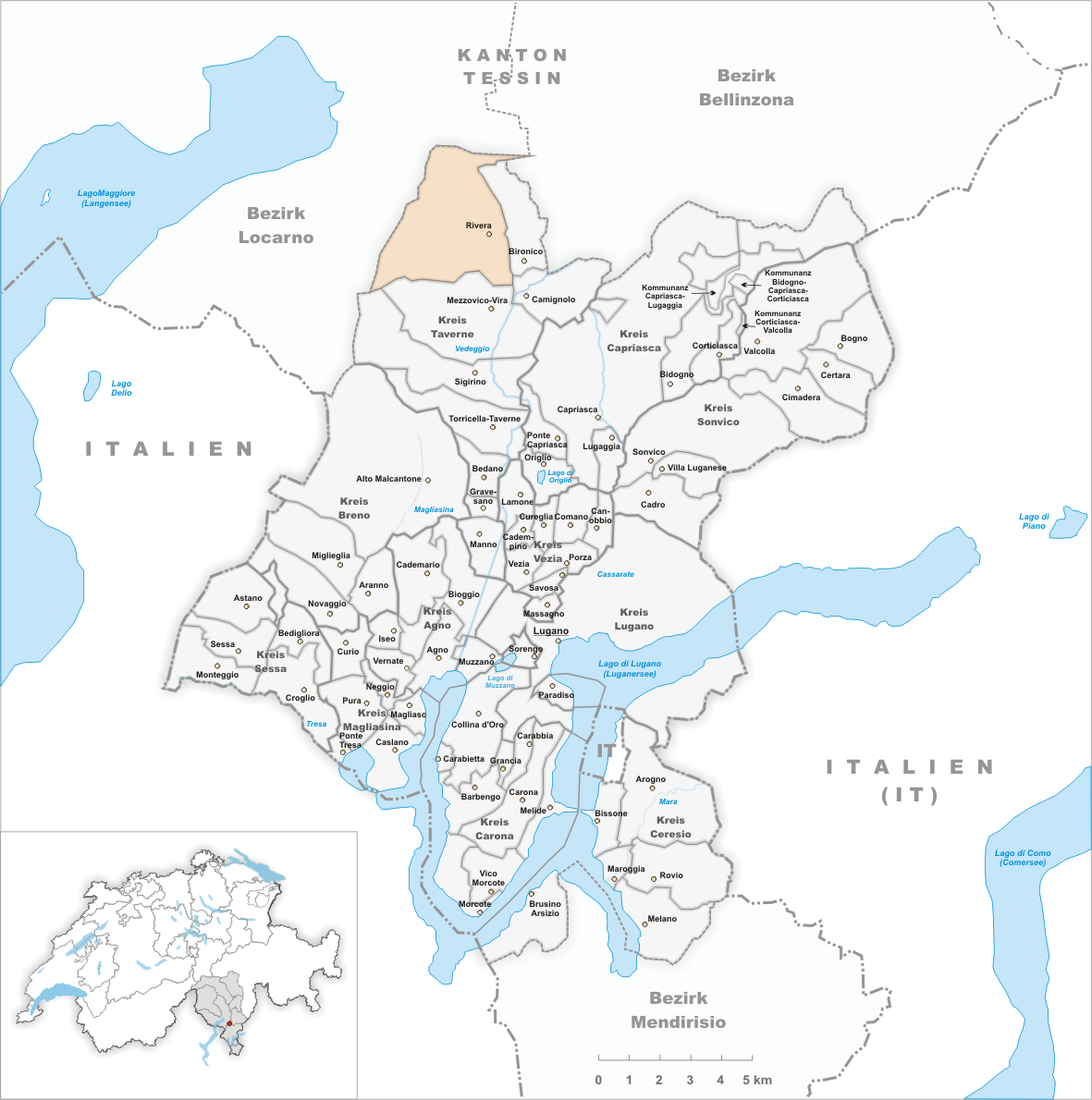 Municipality Rivera